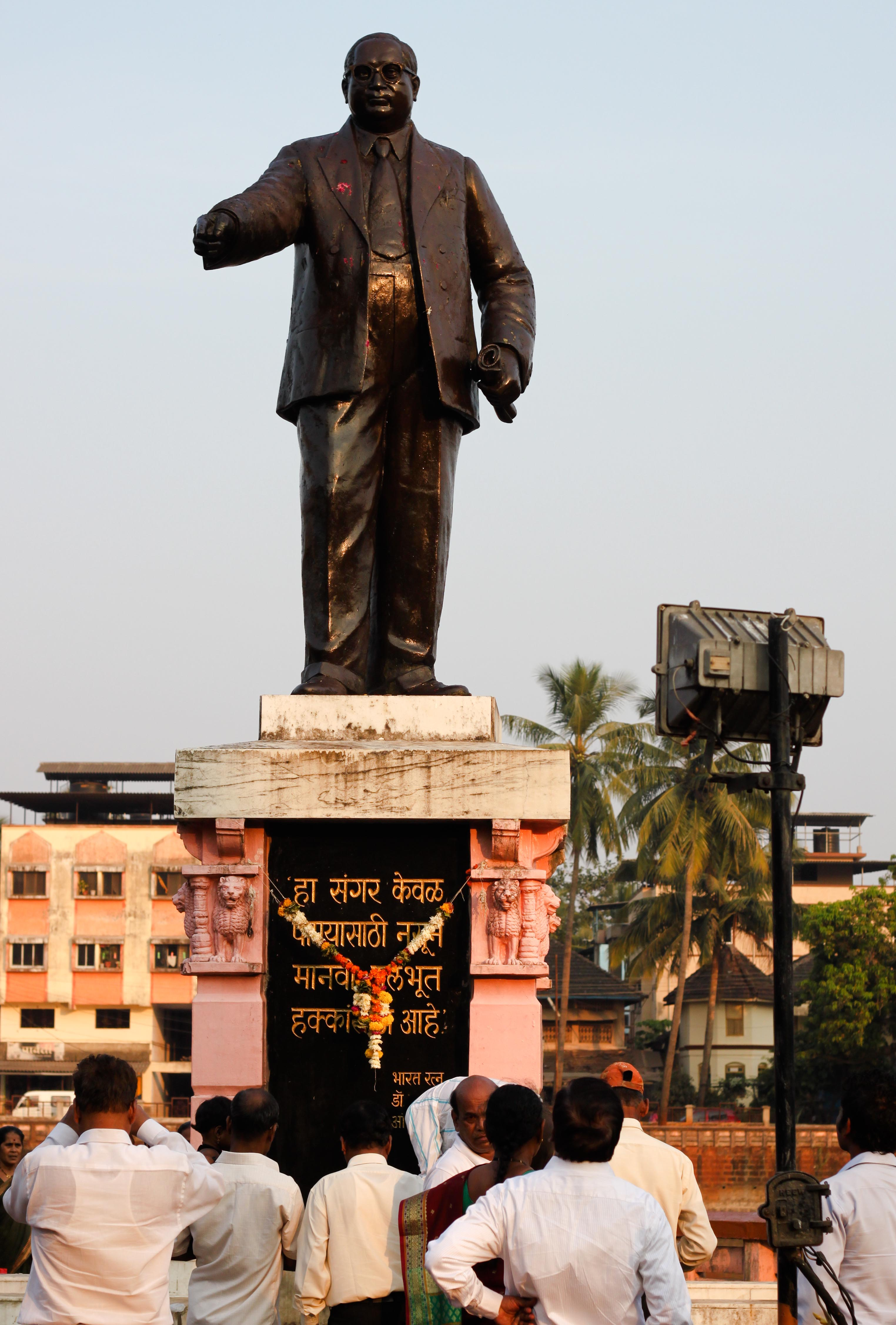 Mahad is considered as Land of Freedom Fighters and many revolutionary freedom moments of India are occurred here. It is famous for the Drinking Water Satyagraha of Dr. Babasaheb Ambedkar for Dalits at Chavdar Tale,which played as turning point in Indian sociopolitical history.